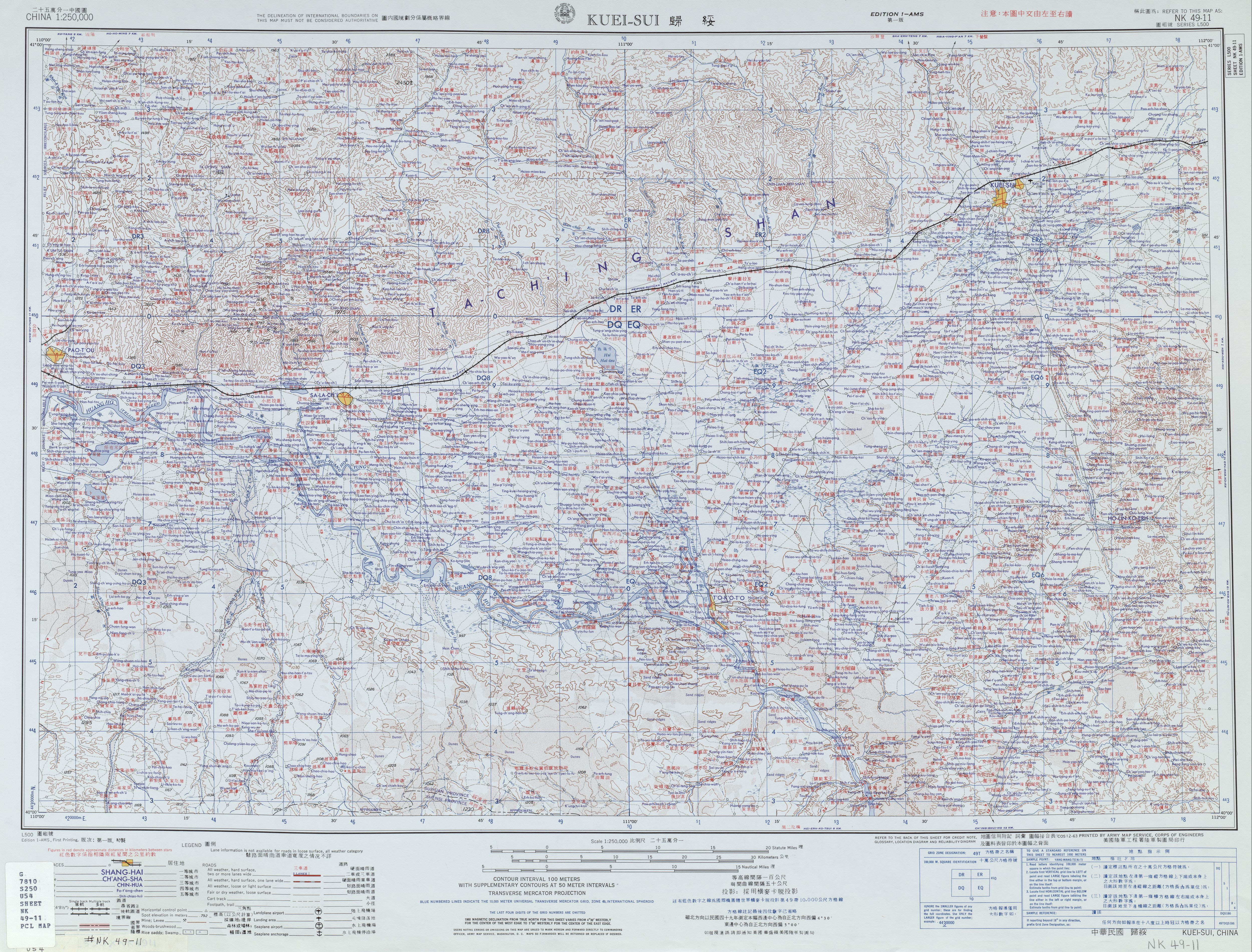 China AMS Topographic Maps